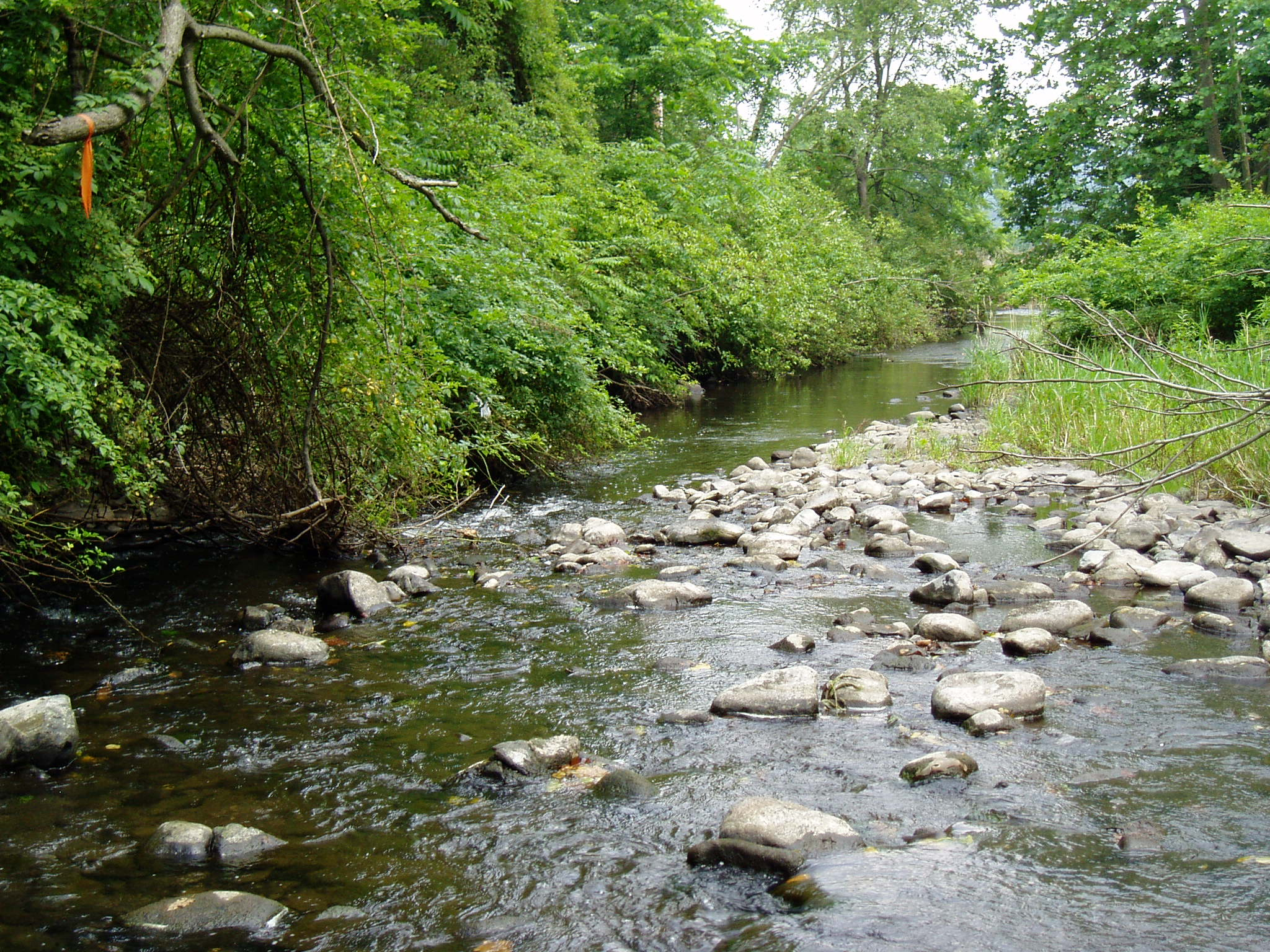 West Branch of the Papakating Creek at a point near its mouth in Wantage Township, Sussex County, New Jersey (USA).